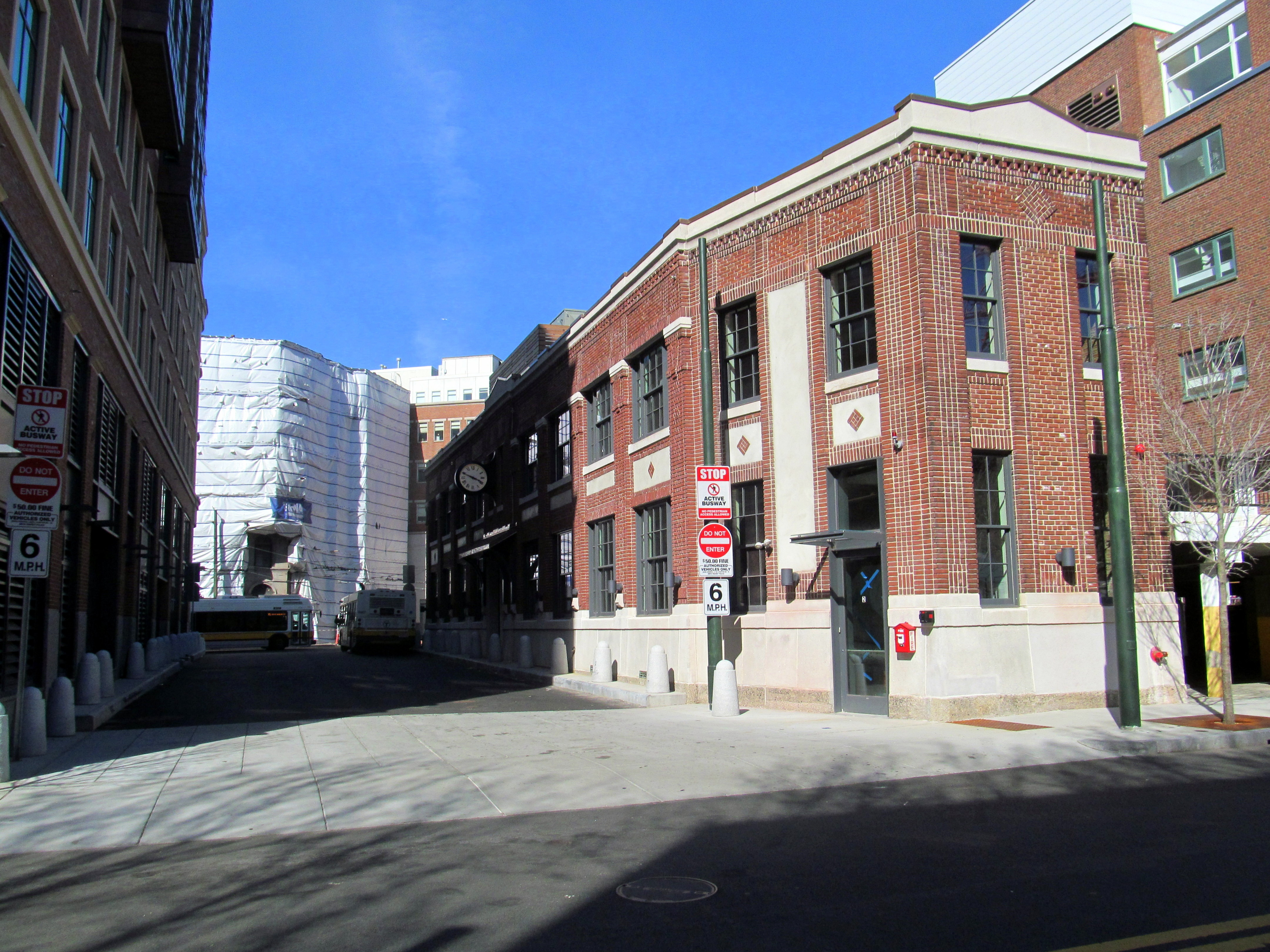 Conductor's Building in April 2016 after renovations